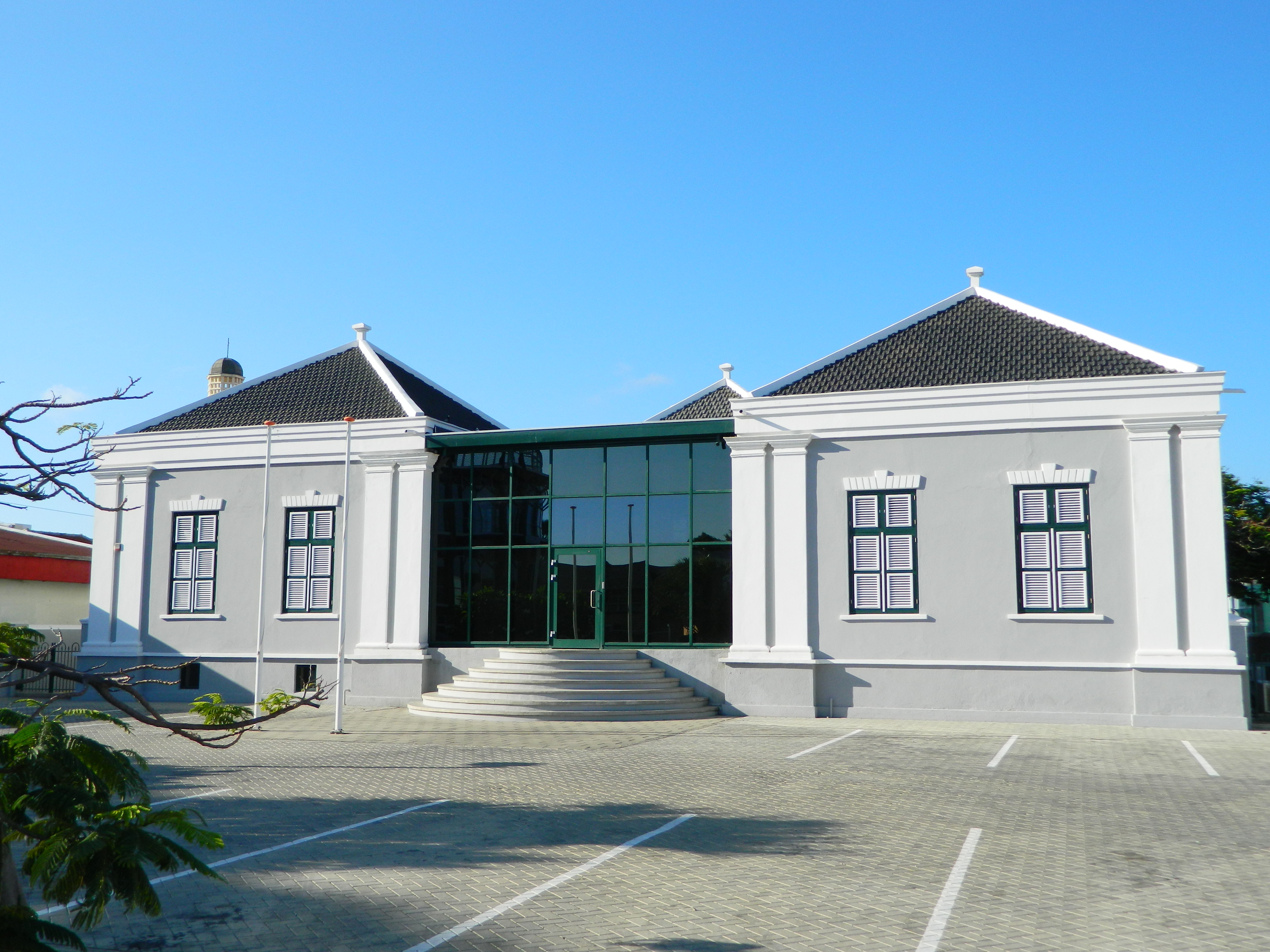 School 1888, -backside-, Oranjestad, ARUBA